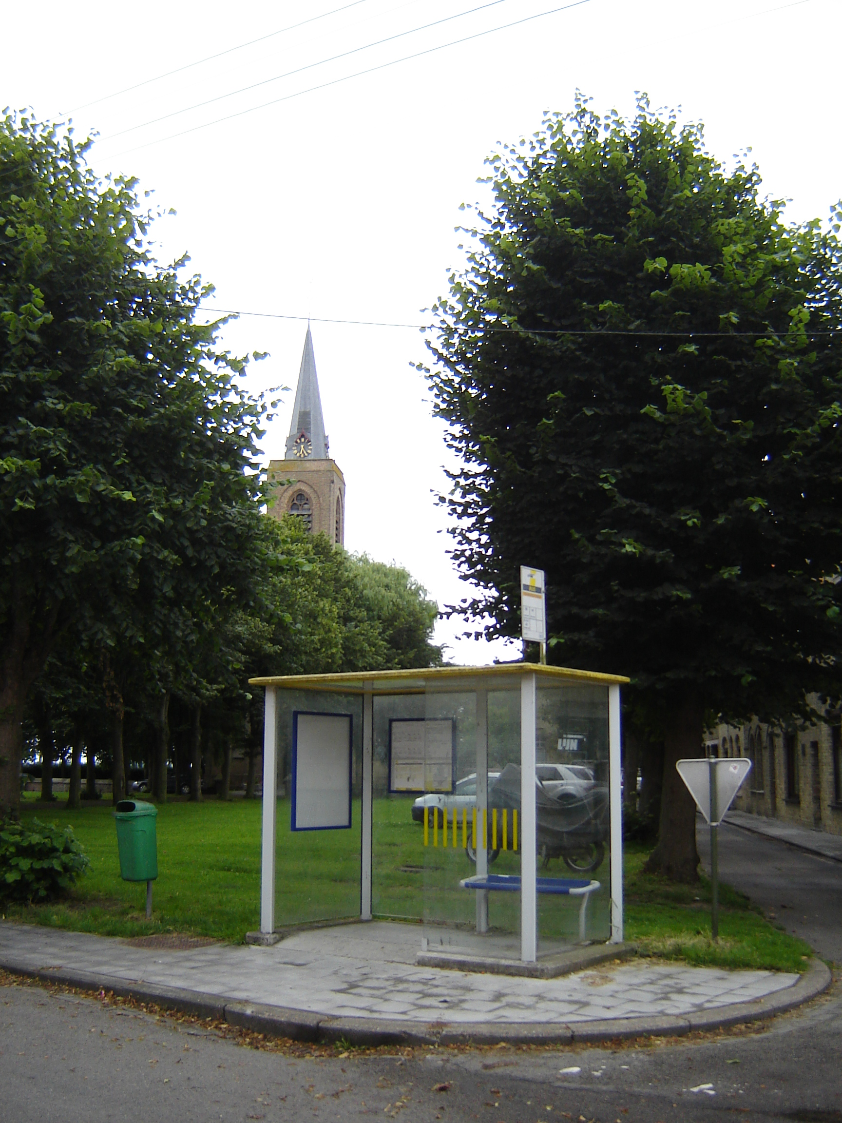 Village center of Oostkerke. Bus stop on the Sint-Veerleplein square, in the background the church of Saint Pharailde. Oostkerke, Diksmuide, West Flanders, Belgium